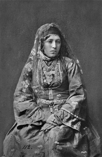 Jewess. Akhaltsikh. Georgia. Jews. Photographer D.A. Nikitin. 1881